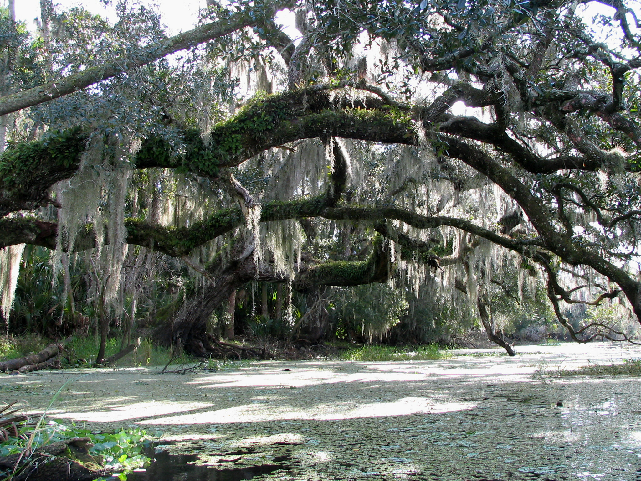 Snake River, which forms the southern side of Hontoon Island Florida, USA